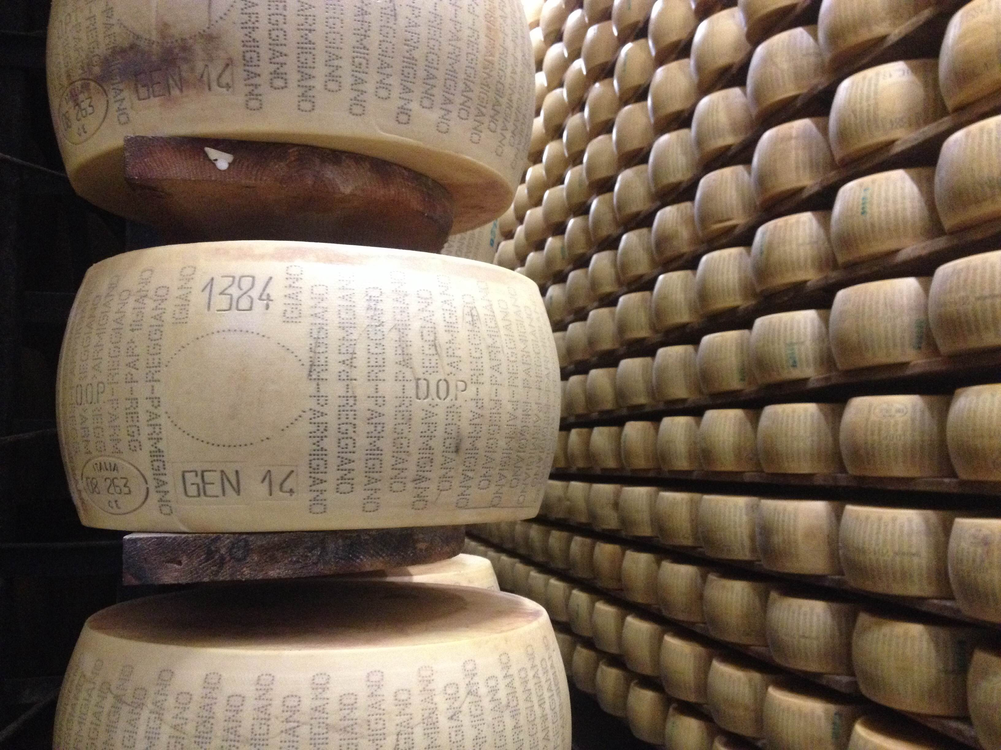 Wheel of Parmigiano-Reggiano marked as being made in January 2014 - the central oval is where the mark of certification will be placed if the wheel is approved at the end of its maturation.